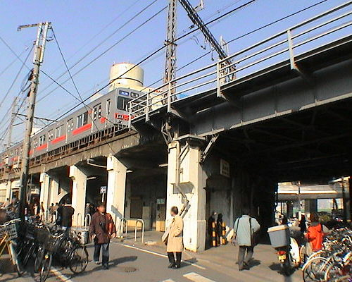 Takashimacho Station (-2004),Toyoko Line,Tokyo Express Electric Railway.